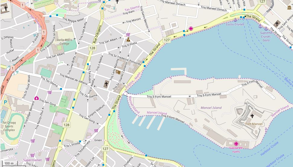 Gzira, Malta This map may be incomplete, and may contain errors. Don't rely solely on it for navigation.